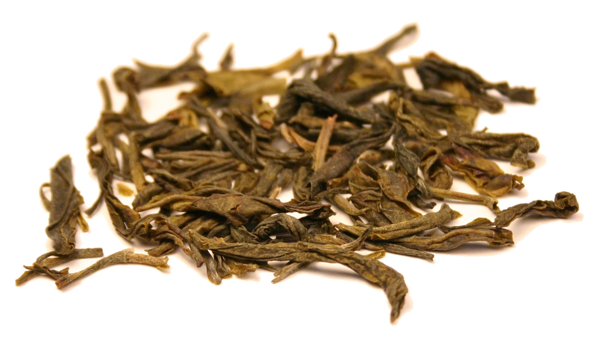 Iddalgashinna OP1 - a organic and biodynamic Orange Pekoe 1 Spl green tea from Sri Lanka (Ceylon). camera: Canon EOS 300D camera